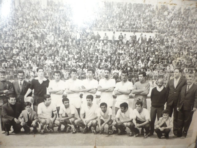 MC Oran in Ahmed Zabana Stadium (1969 Algérian championship runners-up)